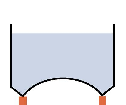 Scheme of the water-reservoir type "Intze 1"